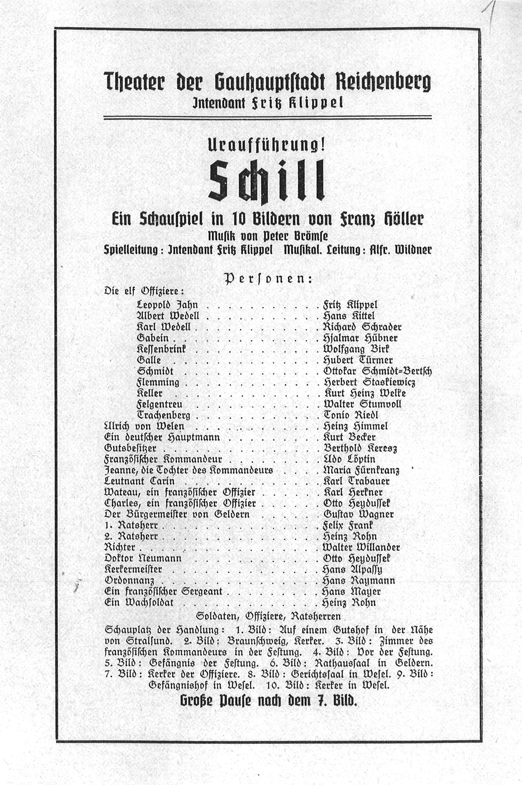 Poster for premiere of play Schill at Theater der Gauhauptstadt Reichenberg (Liberec 11. 2. 1939).